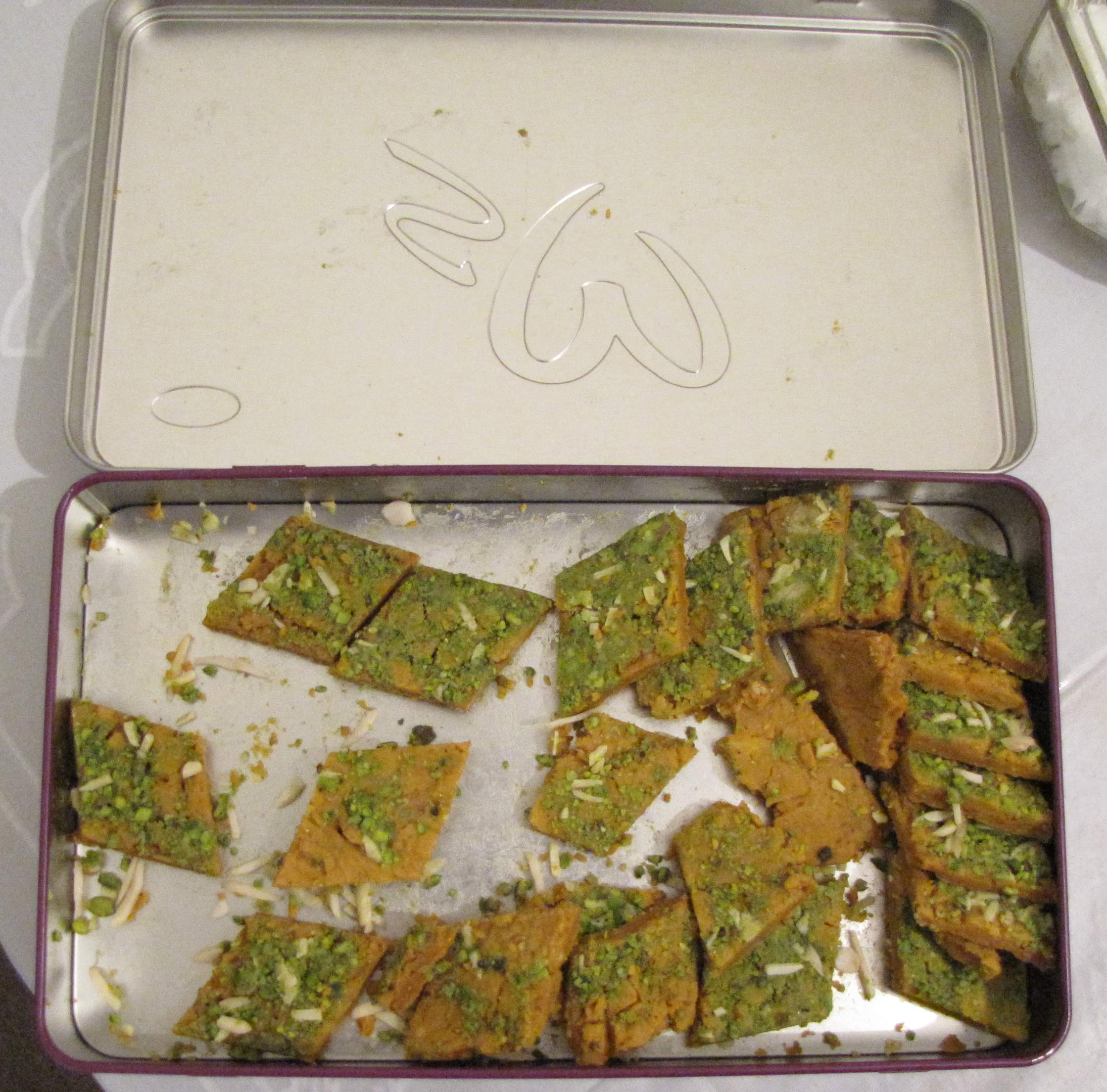 A box of Sohan